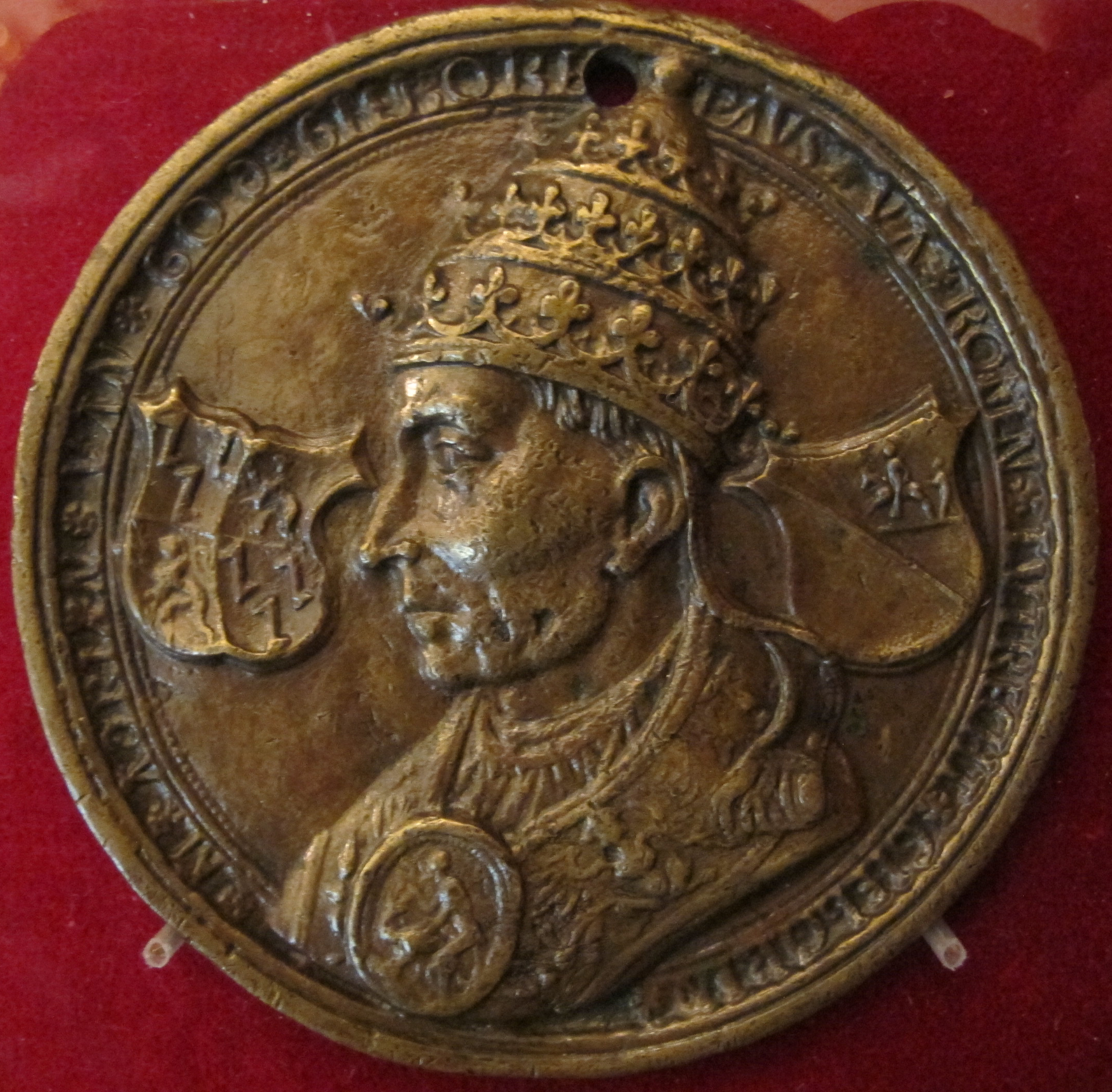 Medal of Adrian VI (1459-1523)